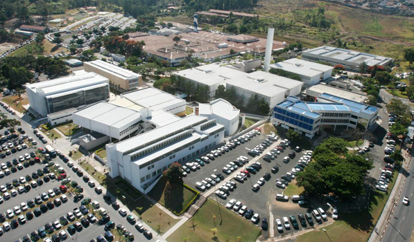 Campus II of Pontifícia Universidade Católica de Campinas.